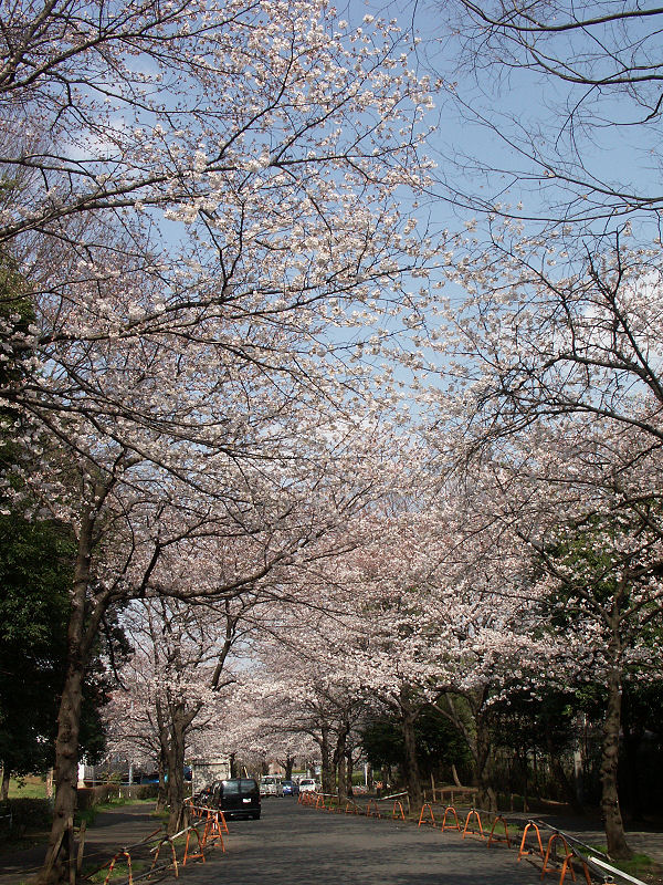 Sakura" (cherry) blossom around the park. Place: Midorigaoka-reien, Shimosakunobe Kawasaki Kanagawa, Japan.